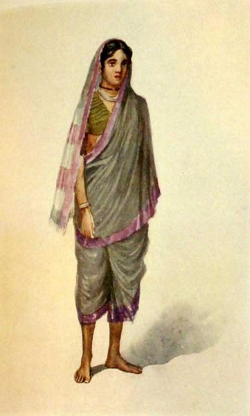 "A Mahar woman," a watercolor by Rao Bahadur M. V. Dhurandhar, 1928; more watercolors from the set: *"A working woman at Ajmere"* *"ABengali lady"* *"A Bhatia lady"* *"A Bhil girl"* *"A Bombay lady"* *"A Borah lady, Surat"* *"Born beside the sacred river"* *"A Brahman lady"* *"From Burmah"* *"Cambay type"* *"A dancer in Mirzapur"* *"A dancer from Tanjore"* *"A widow in the Deccan"* *"A dyer girl, Ahmedabad"* *"A fisherwoman, Sind"* *"A fishwife of Bombay"* *"A denizen of the Western Ghauts"* *"A gipsy woman"* *"A Gond woman"* *"A glimpse at a door in Gujarat"* *"A Gurkha's wife"* *"A Jain nun"* *"A lady from Jodhpur"* *"In the happy valley of Kashmir"* *"A Muslim artisan, Kathiawad"* *"A Khoja lady, Bombay"* *"A Mahar woman"* *"A Marathi lady"* *"A Memon lady walking"* *"A lady from Mewar* *"The milkmaid"* *"A mill hand"* *"A Mussulman lady"* *"A Mussulman nautch-girl"* *"A Mussulman weaver"* *"A lady from Mysore"* *"A Nagar beauty"* *"A Naikin in Kanara"* *"A Nair lady"* *"Parsi fashion"* *"A Pathan woman"* *"A Pathare Prabhu lady"* *"A Rajput lady, Kutch"* (shown above) *"A Southern India type"* *"A sweeper lady"* *"A Toda woman in the Nilgiries"* *"A lady of the United Provinces"* Source: ebay, Aug. 2006